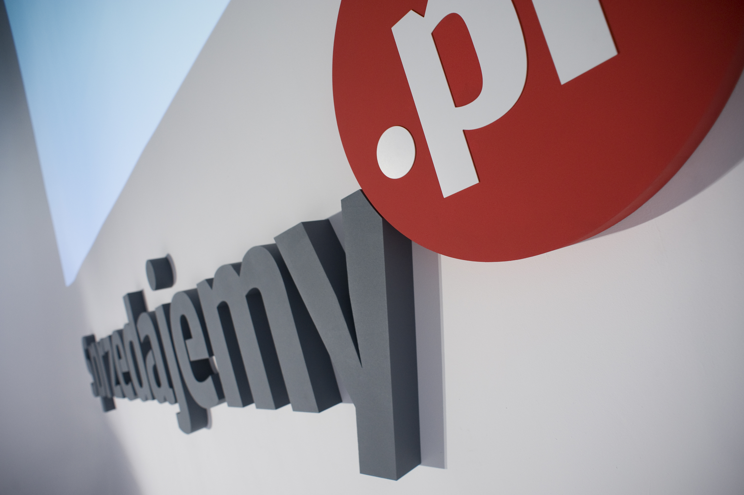 Konferencja pre-launch